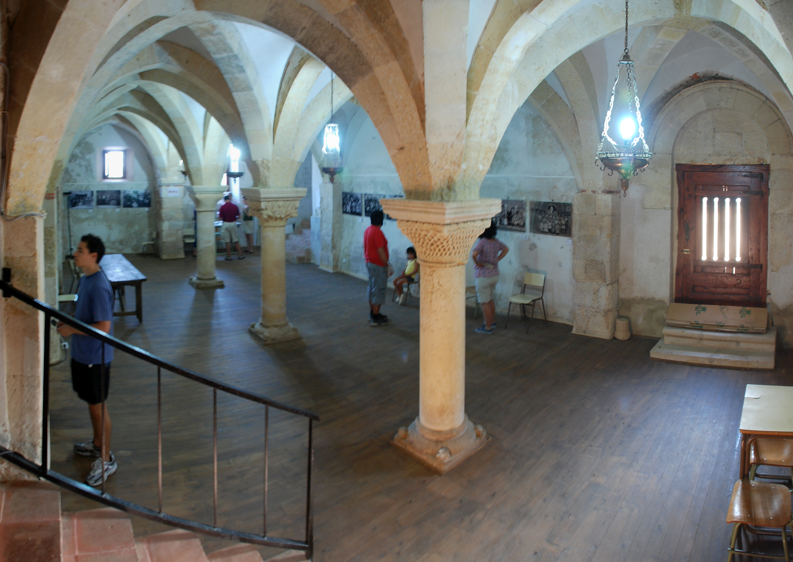 Chapter house of the Church of San Pelayo in Arenillas de San Pelayo (Palencia, Castile and León).